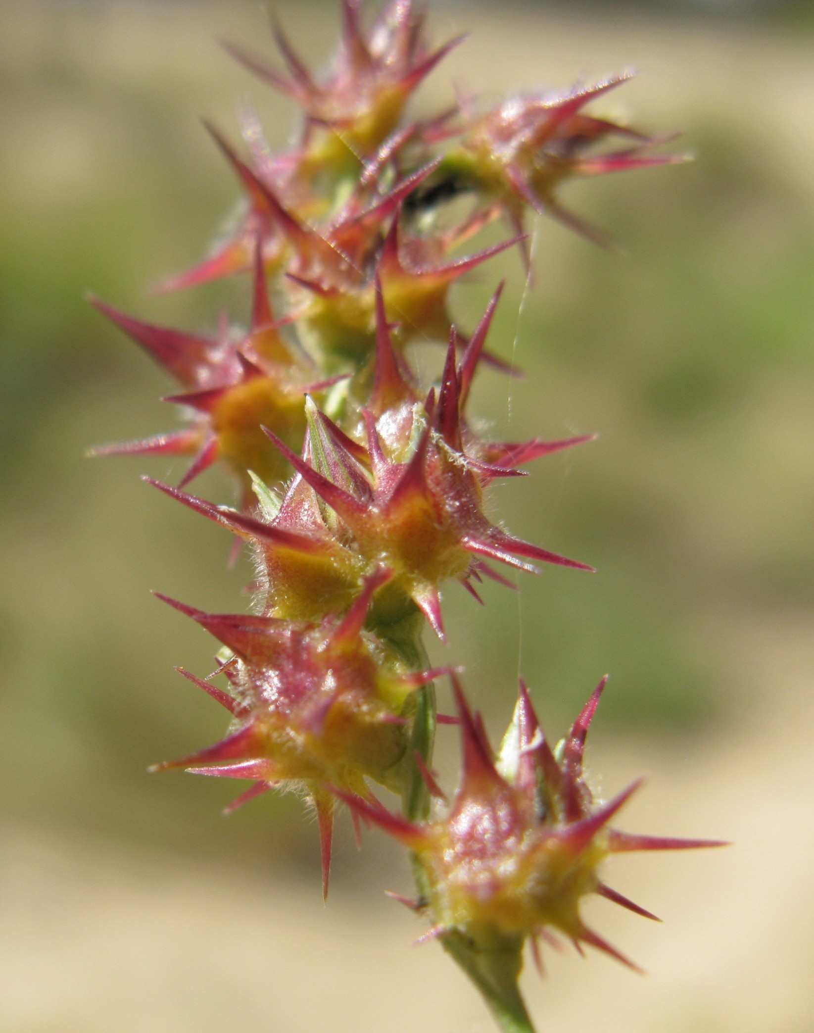 Cenchrus spinifex burrs at Rocky River, New South Wales, Australia